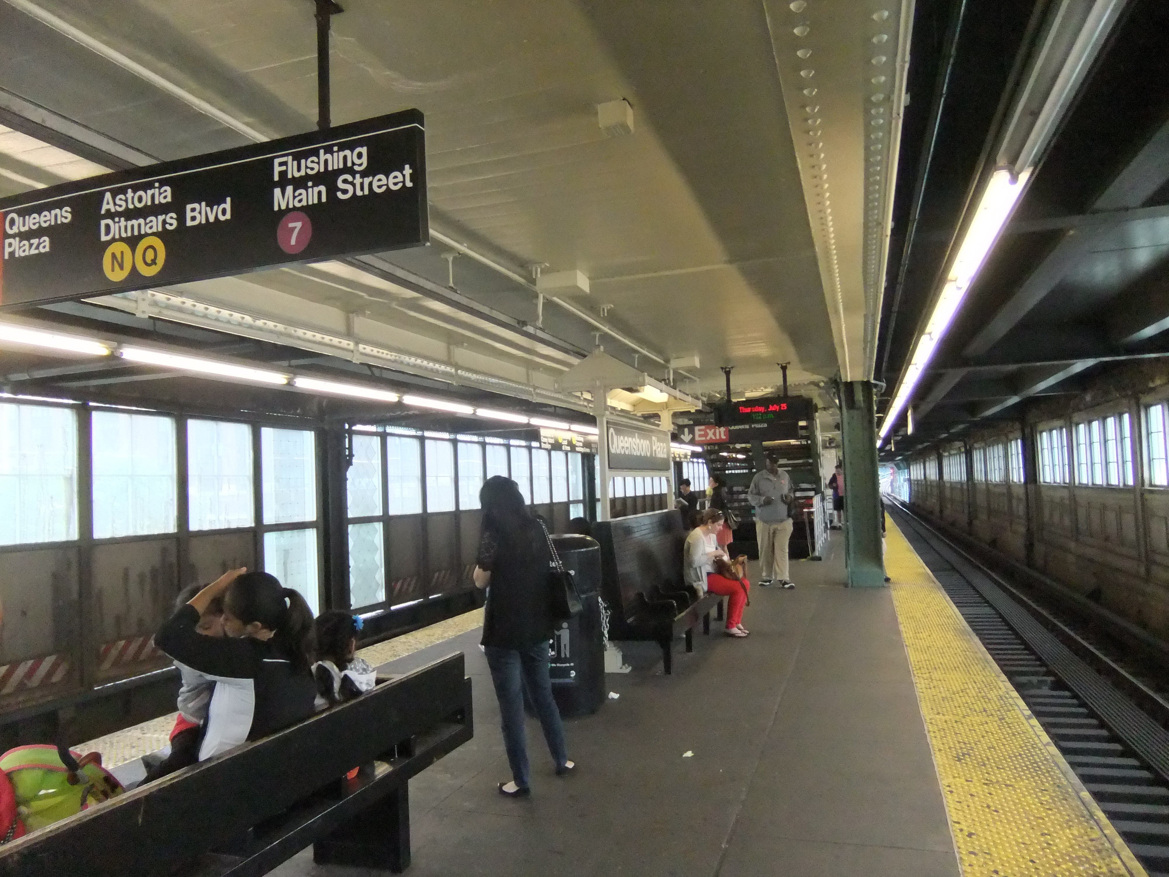 Lower Level (Manhattan bound) platform at Queensboro Plaza